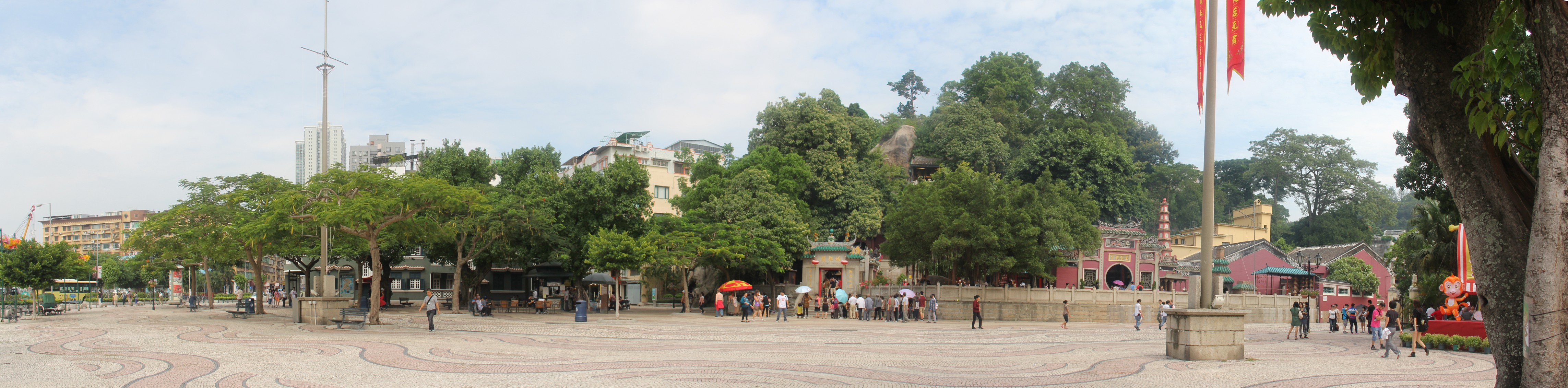 Macao Barra Square.